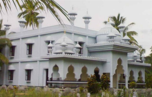 Palemave Muslim Juma-ath Musjid thozhiyoor